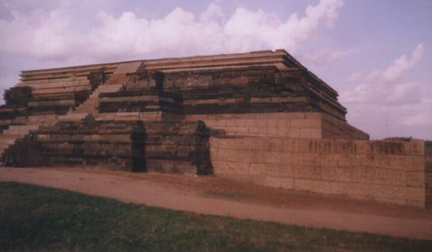 a wonderful structure at hampi in karnataka of India constructed by vijayanagara empire